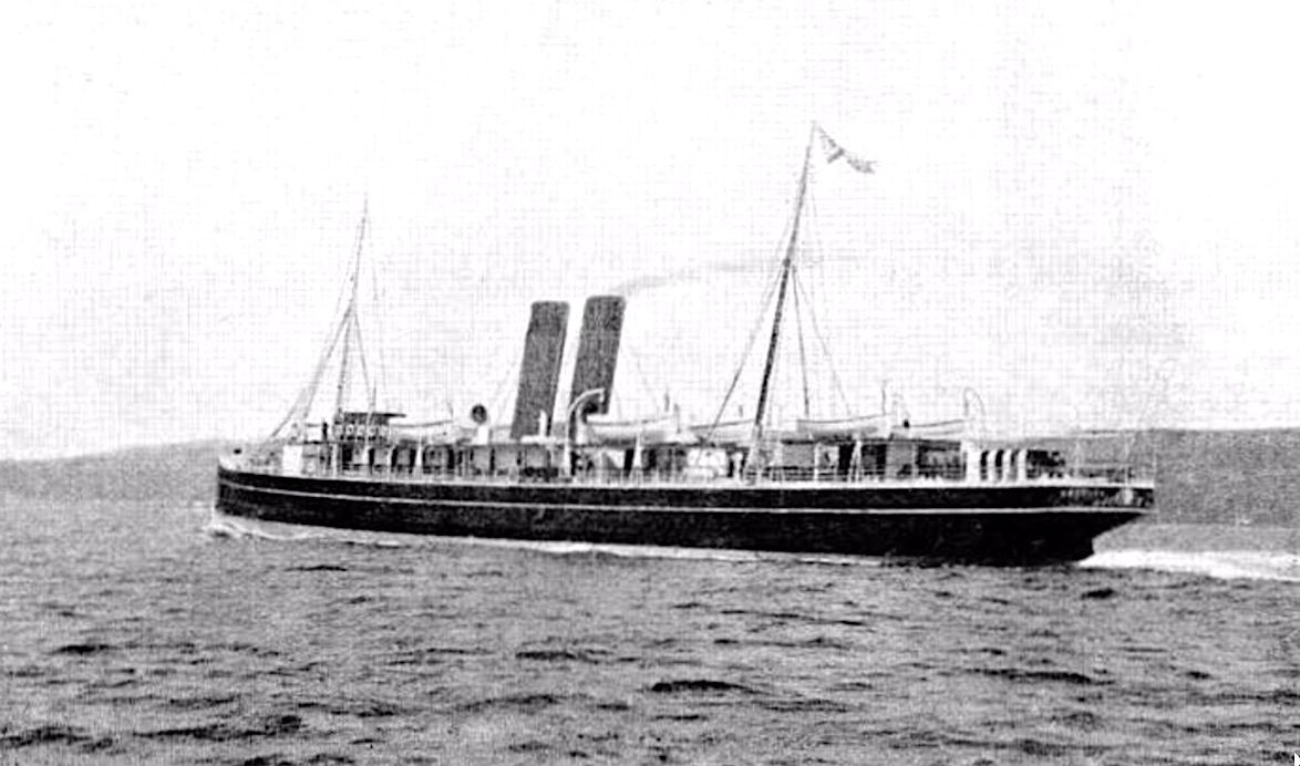 GWR's new twin screw steamship